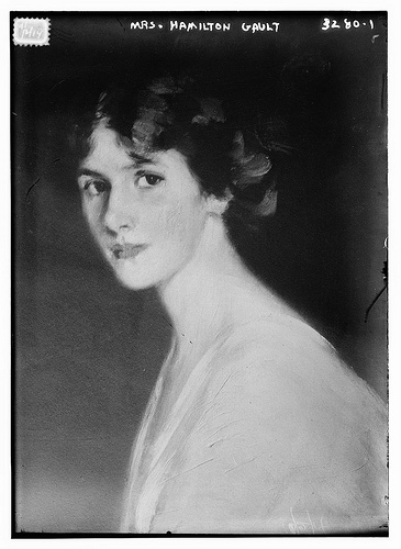 Mrs. Hamilton Gault (LOC) Bain News Service,, publisher. Mrs. Hamilton Gault [between ca. 1910 and ca. 1915] 1 negative : glass ; 5 x 7 in. or smaller. Notes: Title from unverified data provided by the Bain News Service on the negatives or caption cards. Forms part of: George Grantham Bain Collection (Library of Congress). Format: Glass negatives. Repository: Library of Congress, Prints and Photographs Division, Washington, D.C. 20540 USA, General information about the Bain Collection is available at Persistent URL: Call Number: LC-B2- 3280-1